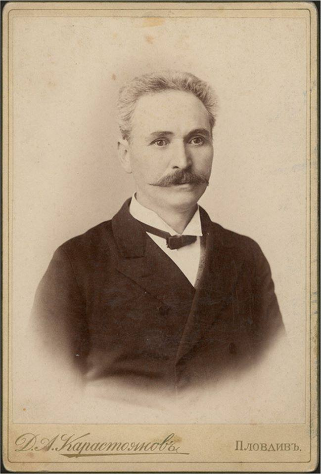 Georgi Danchov - Zografina (c. 1893)